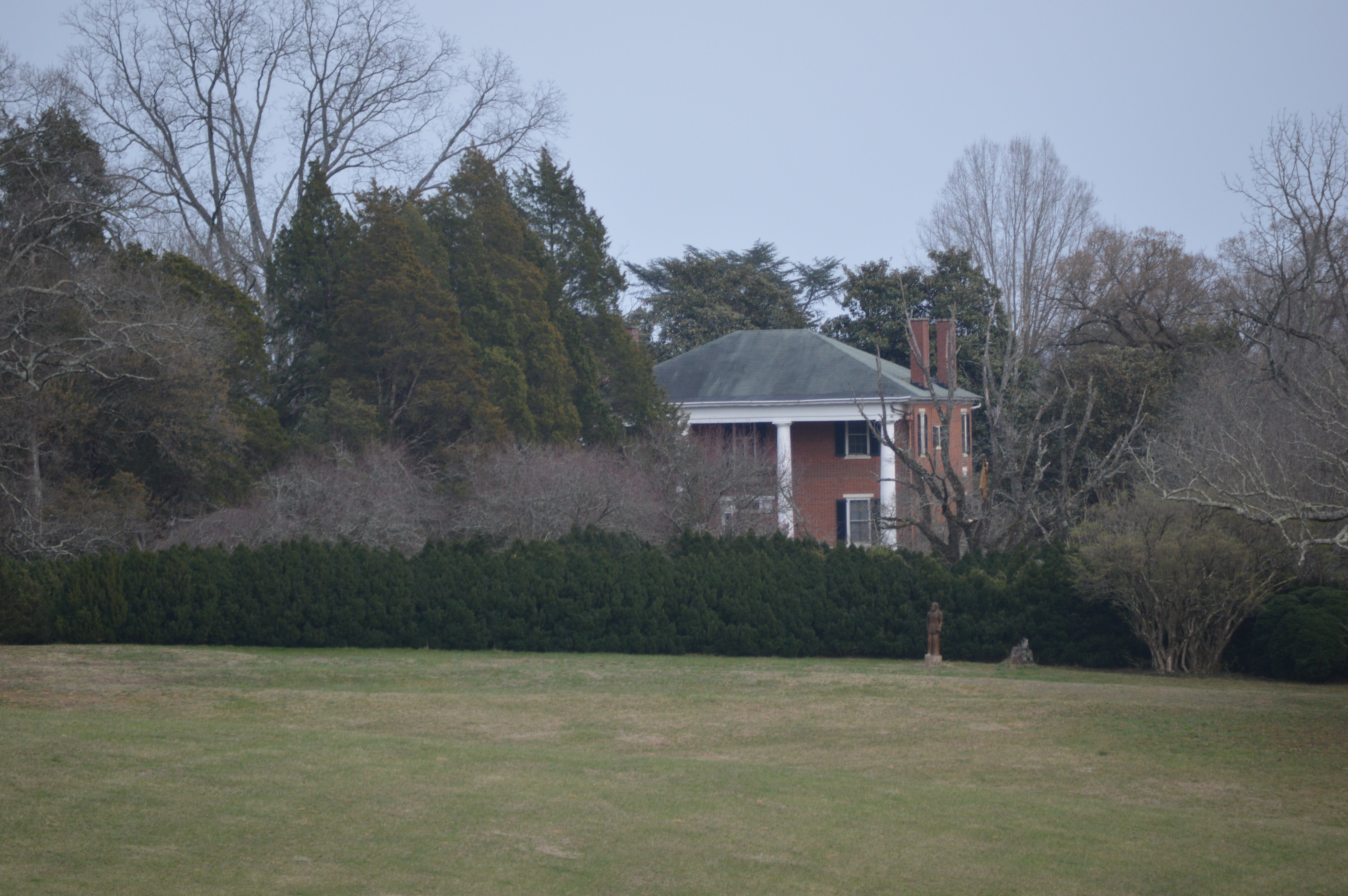 Distant view of the house at the Point of Fork Plantation, located off Point of Fork Road west of Columbia in Fluvanna County, Virginia, United States. Built in 1830, it is listed on the National Register of Historic Places.